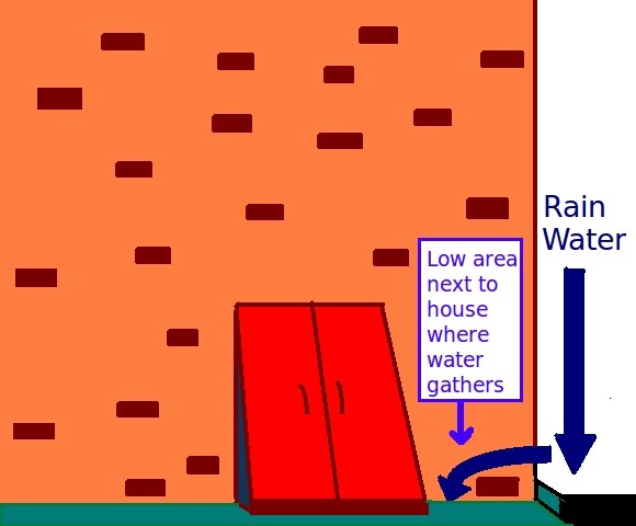 Diagram of water seeping into a basement. Water hits a driveway, flows to area between doors and driveway, and seeps through cracks in the bricks. The solution is to remortar the bricks. Silicone, as well, can be used to keep water out. In addition, raising the section of the back yard is another alternative. Source: here (see public domain description at top). Questions? Write to My Wikipedia page or email me at .